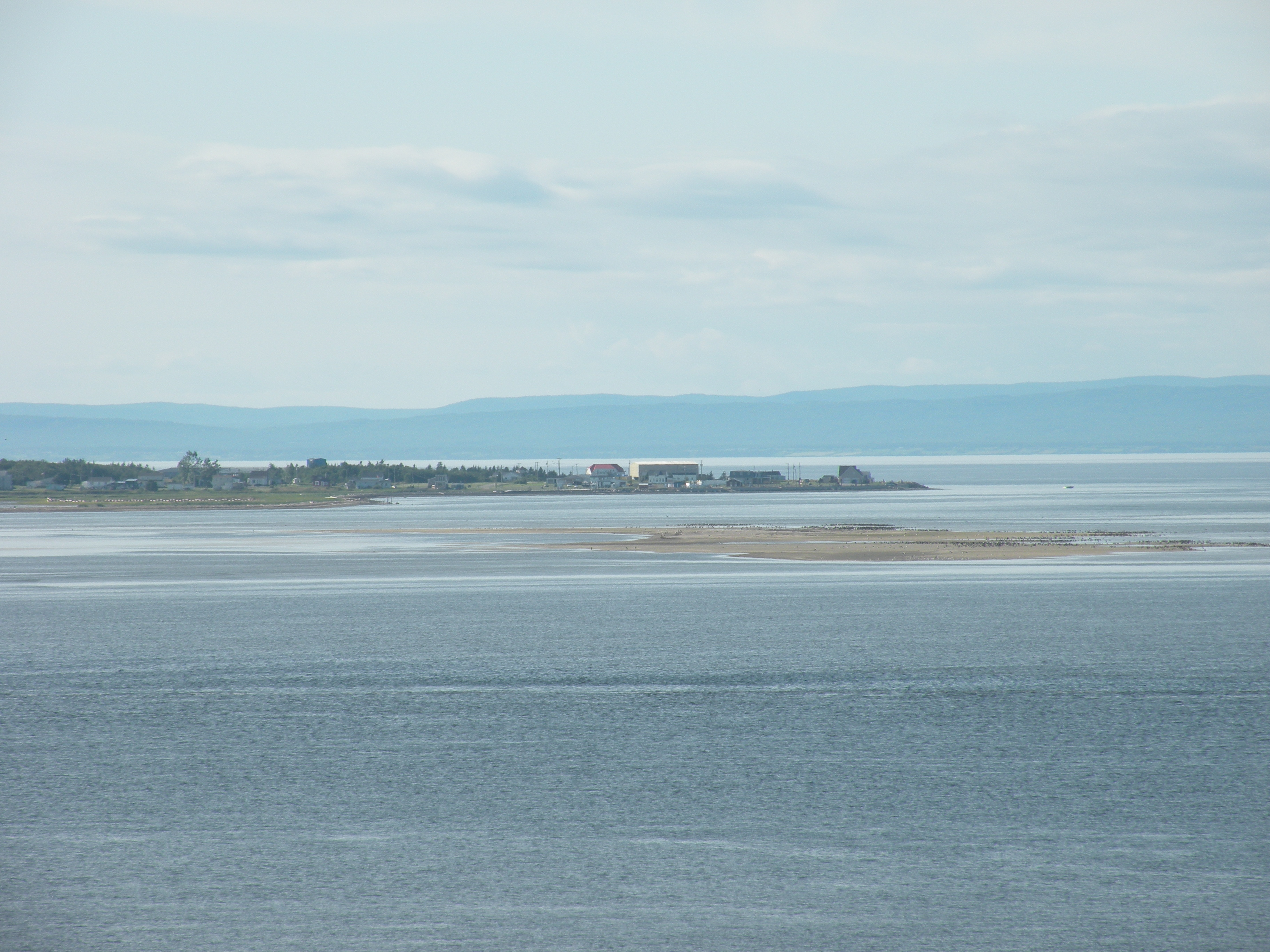 Maisonnette, New Brunswick, seen from Caraquet.